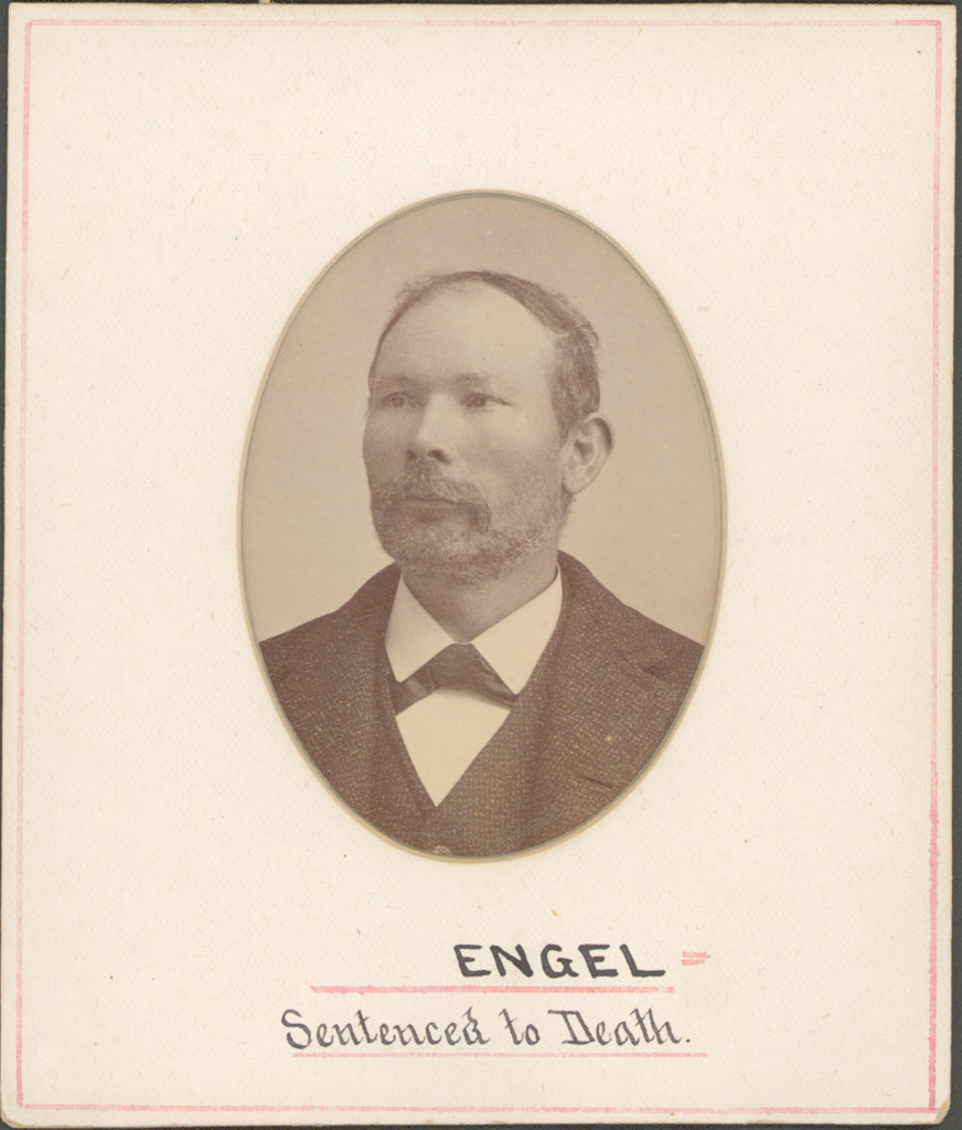 Portrait of George Engel, one of the defendants who was charged with murder in the Haymarket Anarchists Trial, 1886.